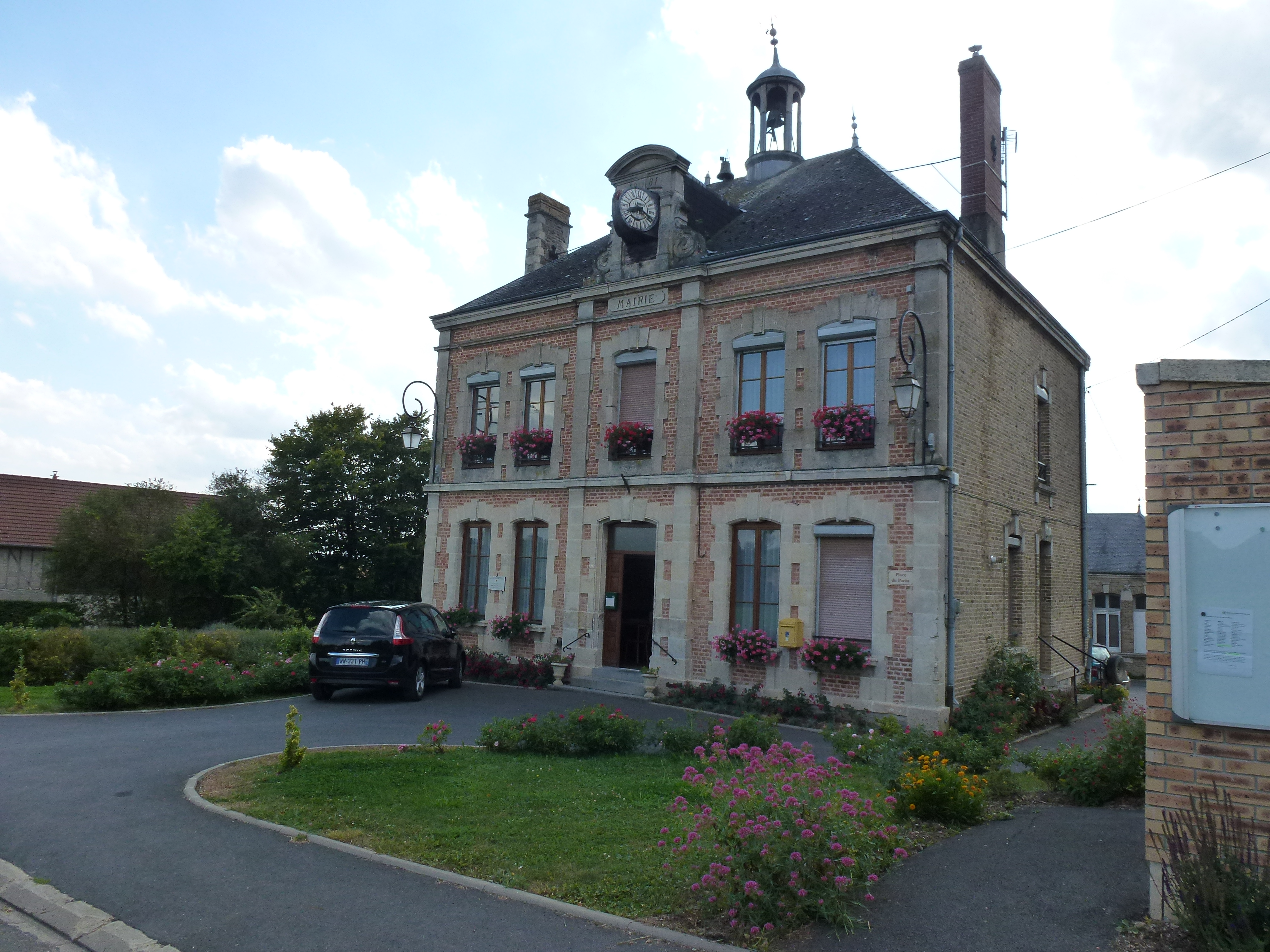 Sorcy-Bauthémont (Ardennes) mairie